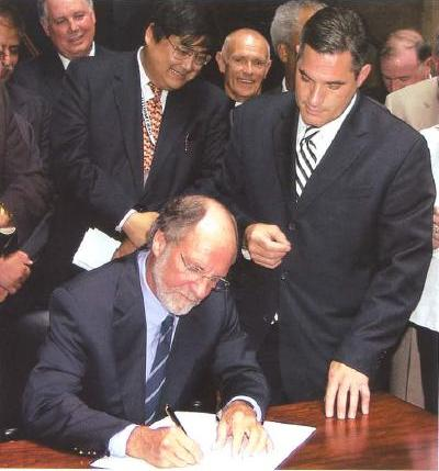 This is a picture of Michael Wildes and Jon Corzine on August 6, 2007. Corzine is signing a piece of legislation in the picture, which authorized the creation of a special panel on immigration. Wildes was on the panel.